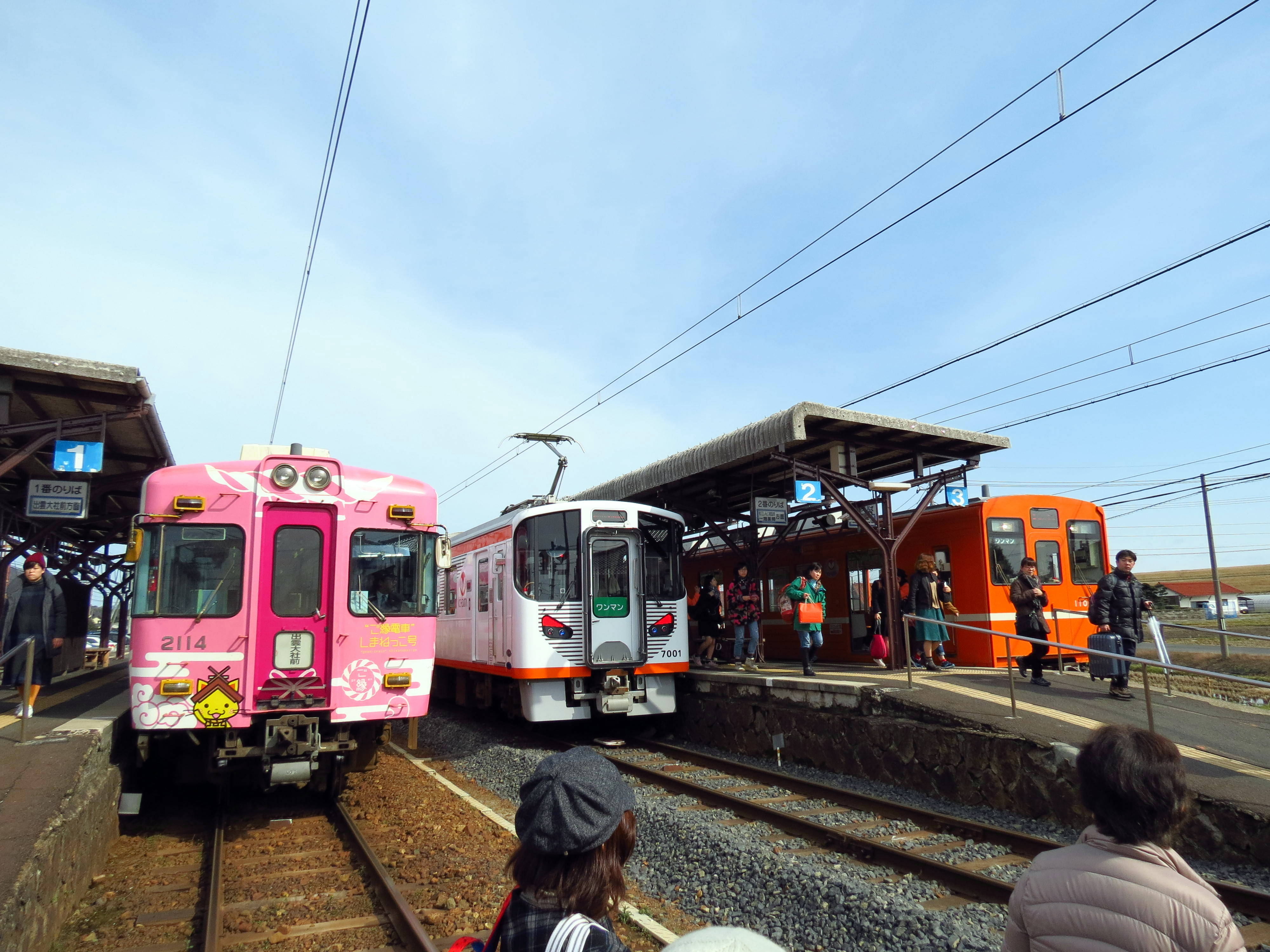 Ichibata Electric Railway 2100 series, 7000 series, and 1000 series EMUs at Kawato Station